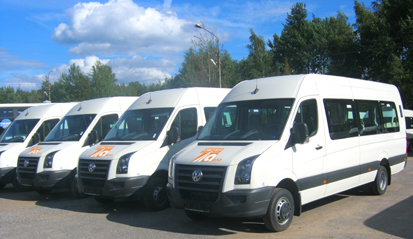 Volkswagen Crafter